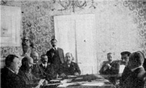 Negotiations in Corfu that lead to the "Protocol of Corfu" which recognized the autonomy of Northern Epirus. Georgios Christakis Zographos, president of Northern Epirus seated on the middle of the picture.